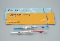 Zoladex (goserelin) 3.6mg & 10.8mg